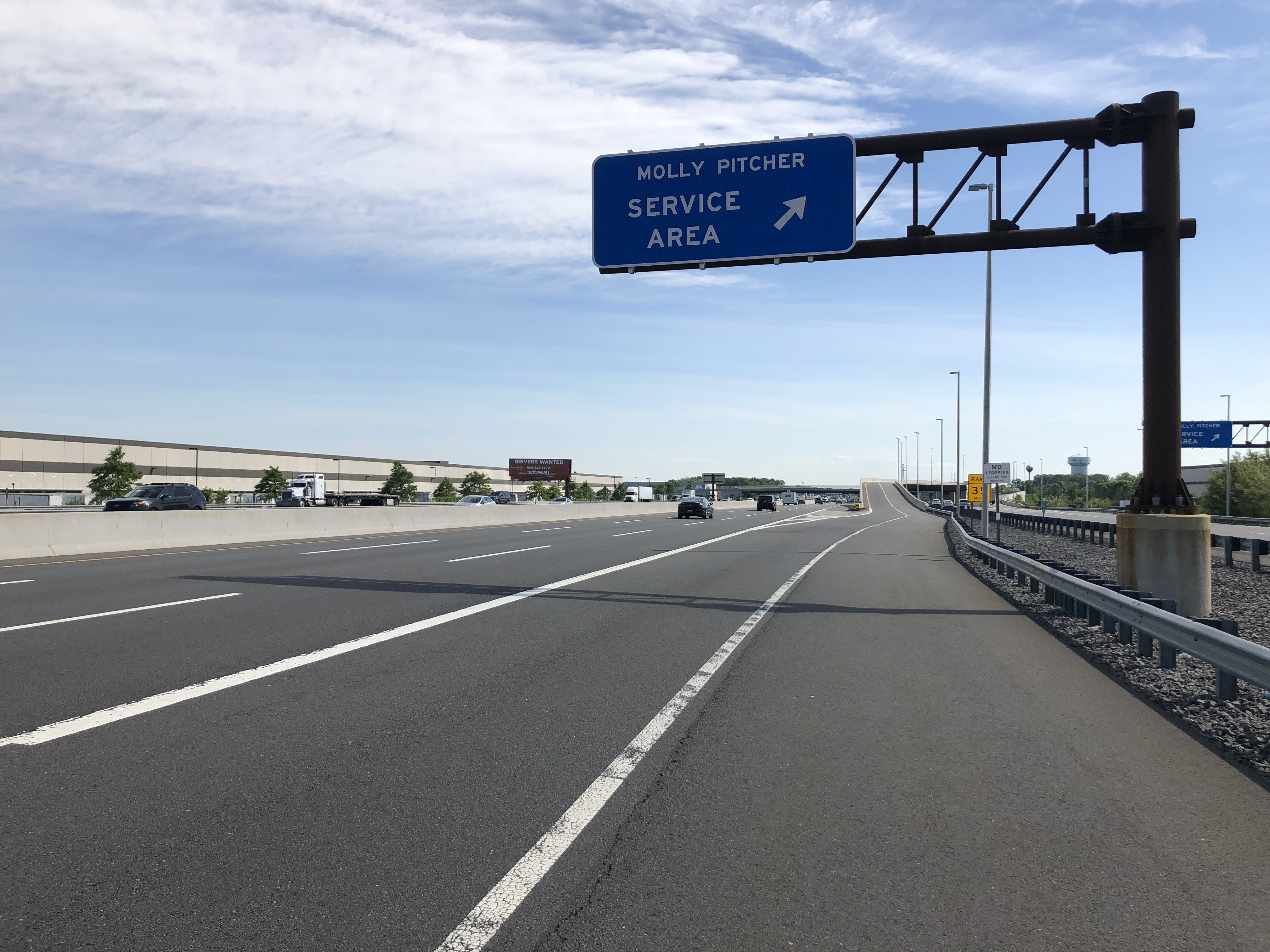 View south along Interstate 95 (New Jersey Turnpike) at the Molly Pitcher Service Area in Cranbury Township, Middlesex County, New Jersey